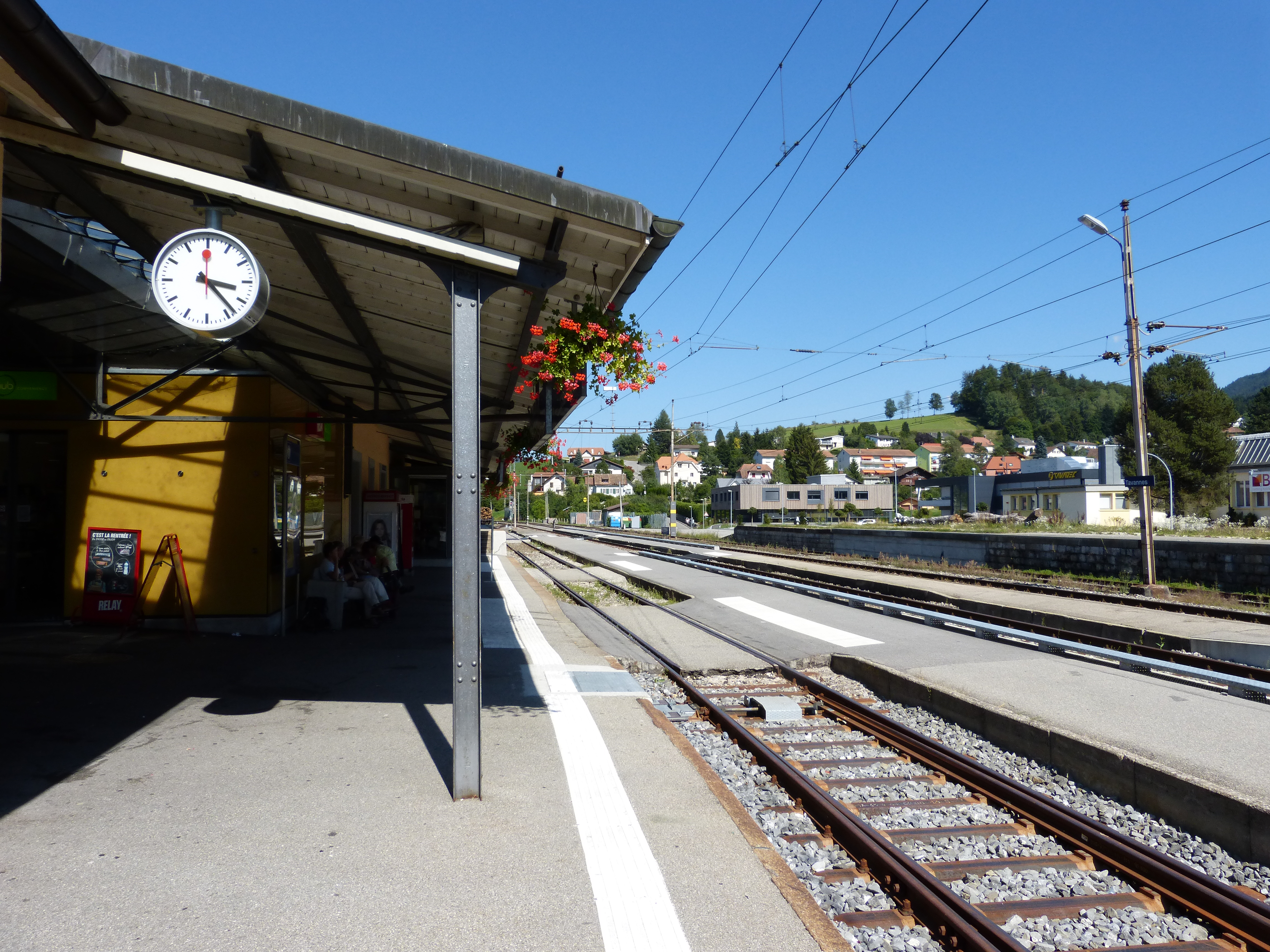 Tavannes railway station - tracks in direction of Moutier.